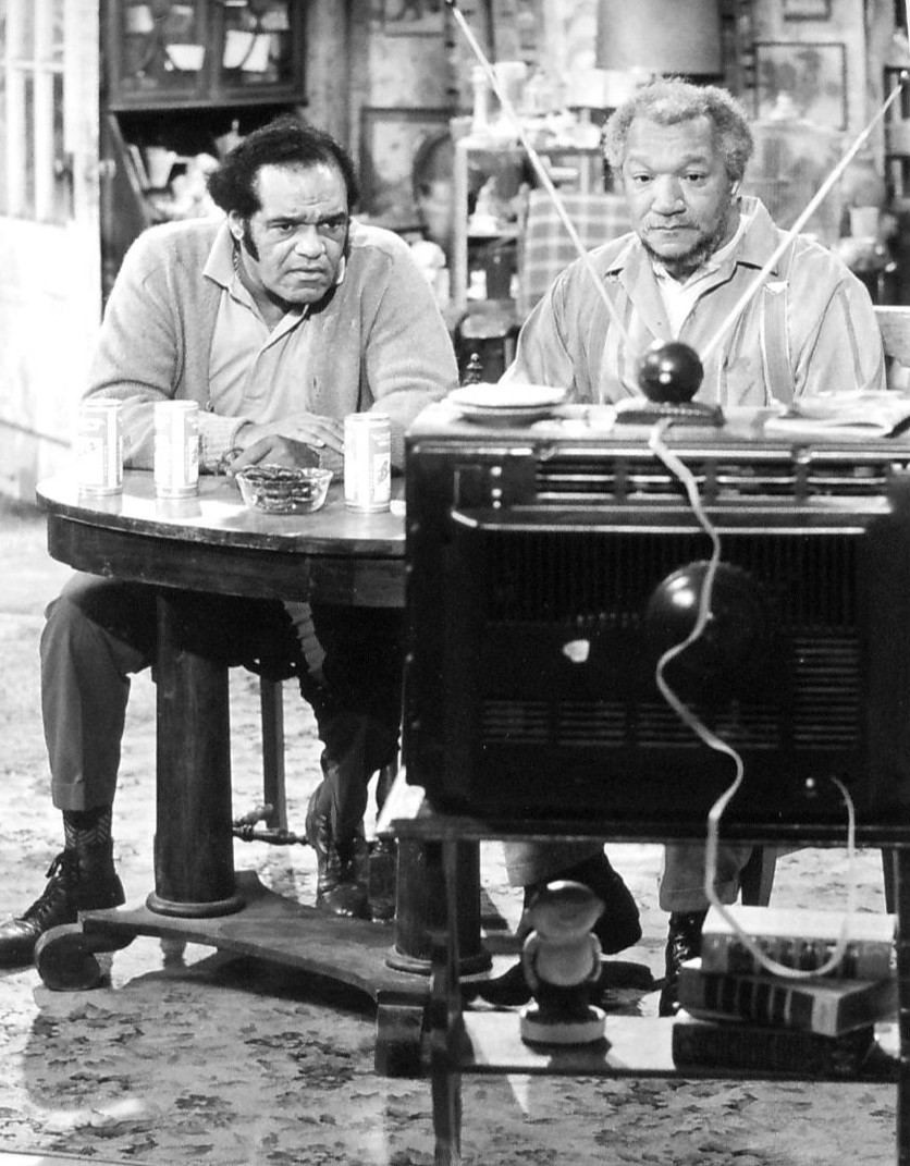 Photo of Slappy White as Melvin, Fred's friend, and Redd Foxx as Fred Sanford from the television program Sanford and Son. Years before, White and Foxx worked together as a comedy team.